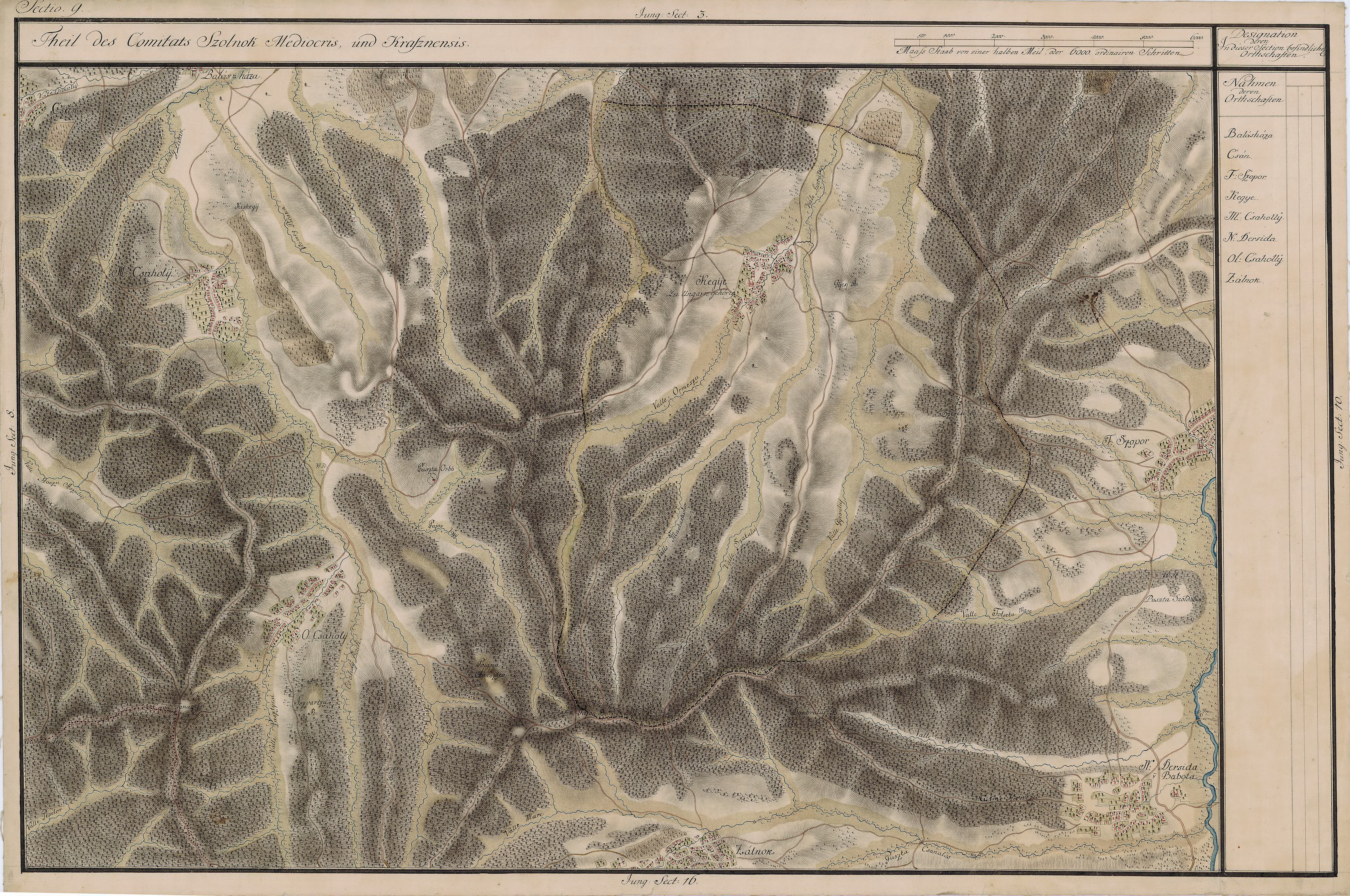 Grand Duchy of Transylvania, 1769-1773. Josephinische Landaufnahme pg.009